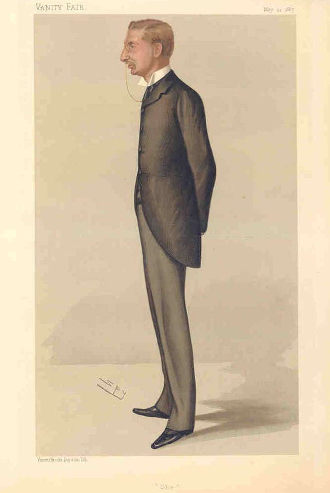 A cartoon of Henry Rider Haggard, author of adventure novels, created by Leslie Ward and signed with his pseudonym, 'Spy' on the lower left hand side. The drawing is dated (May 21 1887) in the upper right corner. In the upper left corner is 'Vanity Fair' as it was commissioned for the British magazine which was published from 1868 to 1914. At the bottom it says, "She," which is the title of a novel written by Rider Haggard that waa published in 1887.